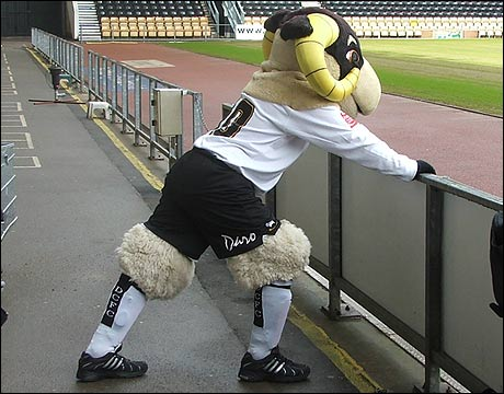 Rammie, aka Dean Mottram .